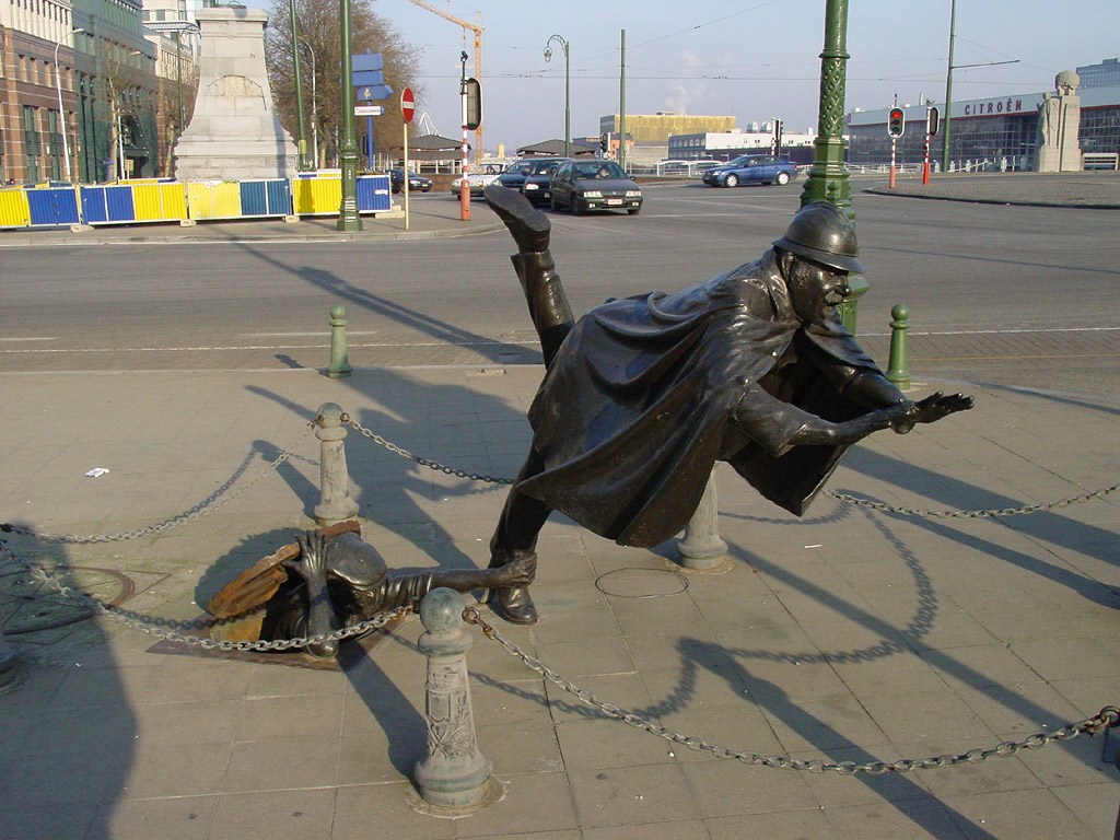 Statue Vaartkapoen, Molenbeek, place Sainctelette, Bruxelles